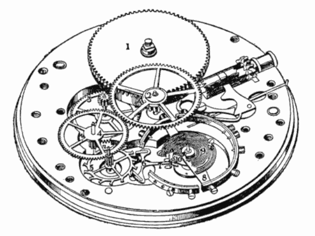 Drawing of a pocketwatch movement from the early 1900s, with the upper plate removed to show the parts. The numbered parts are identified in the caption as: 1.First or main wheel to which mainspring is attached 2.Second or center wheel 3.Third wheel 4. Fourth wheel 5.Escape wheel 6.Pallet, with pallet jewels 7.Lever 8.Balance 9.Hairspring 10.Roller. Alterations: removed frame and caption, sharpened.